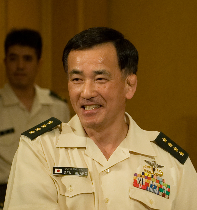 Yoshifumi Hibako, Chief of Staff of the Ground Self-Defense Force, and George W. Casey, Jr., Chief of Staff of the Army, shaked hands during the 6th annual Pacific Chiefs Conference at the Imperial Hotel in Chiyoda Ward, Tokyo Metropolis on August 24, 2009.